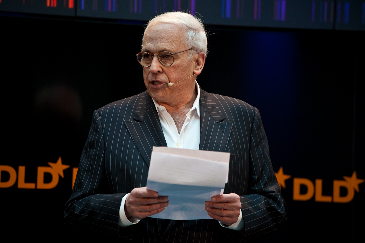 John Brockman at Digital Life Design 2009. Free photos available here.